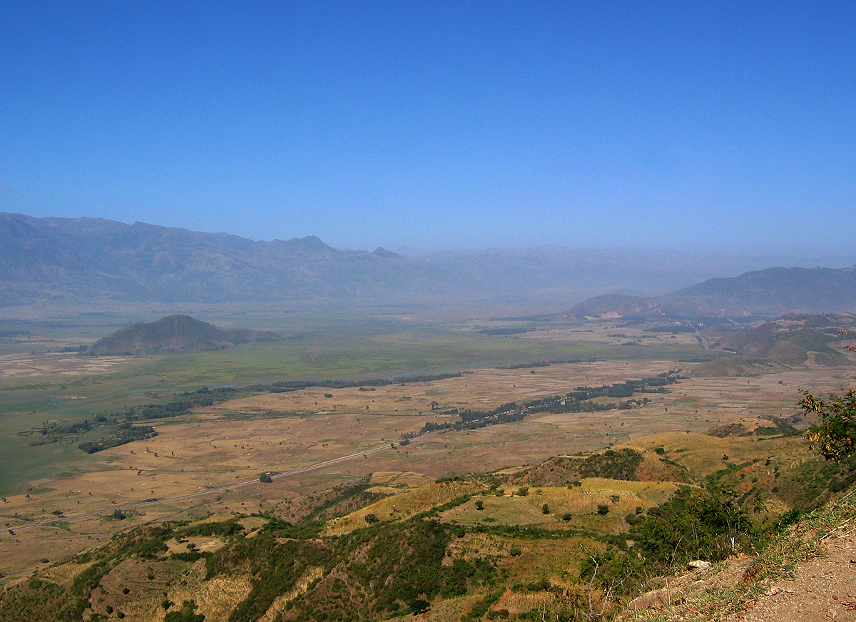 shows the Chafa valley in Oromia Zone of Amhara Region n Ethiopia, the capital Kemise of that Zone can be seen on the right side, as well as the Borkenna River Driss 22:06, 7 July 2007 (UTC), , taken December 2004